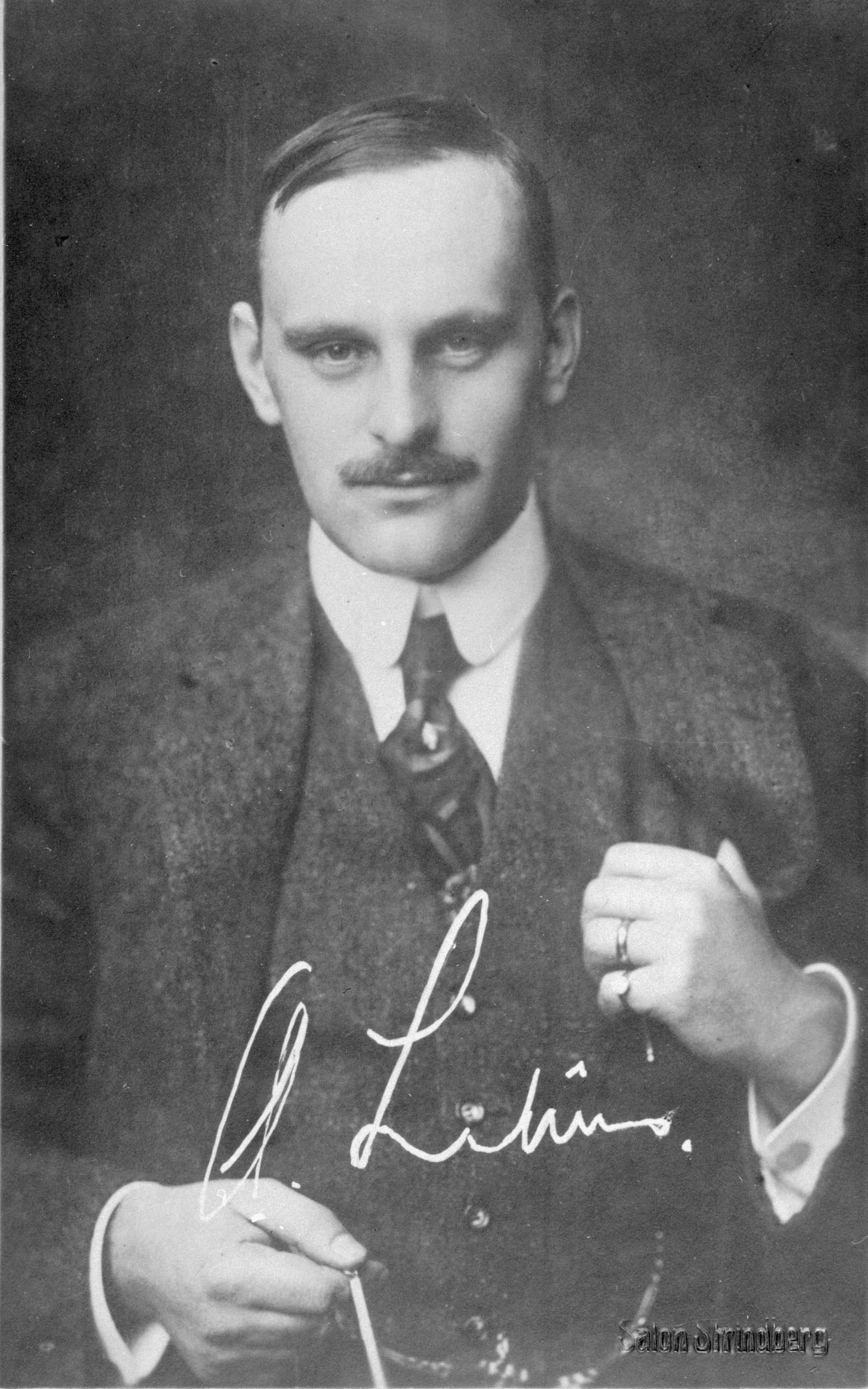 Photograph of the Finnish writer Aleko Lilius (1890–1977).